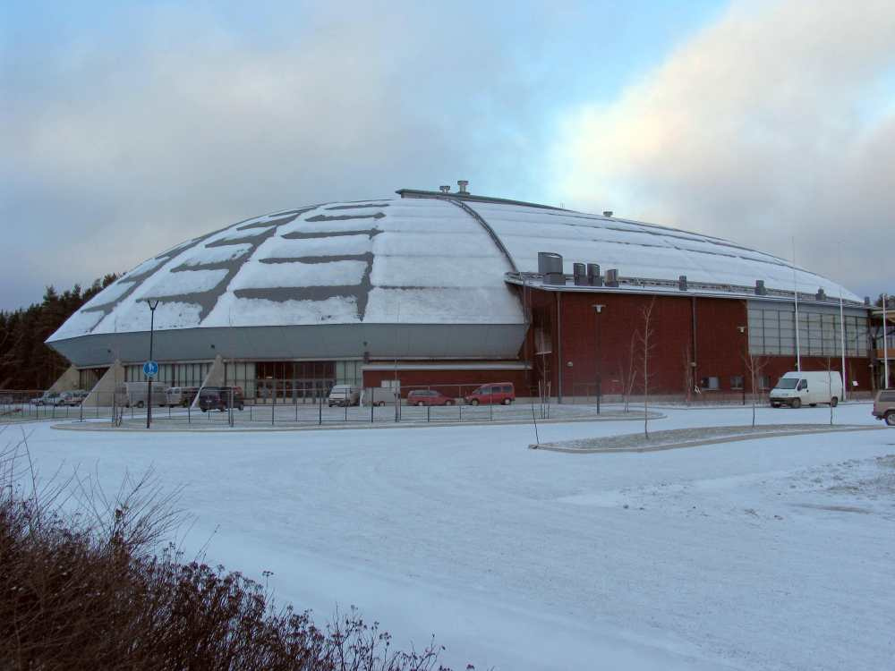 Joensuu Arena in Joensuu, Finland.